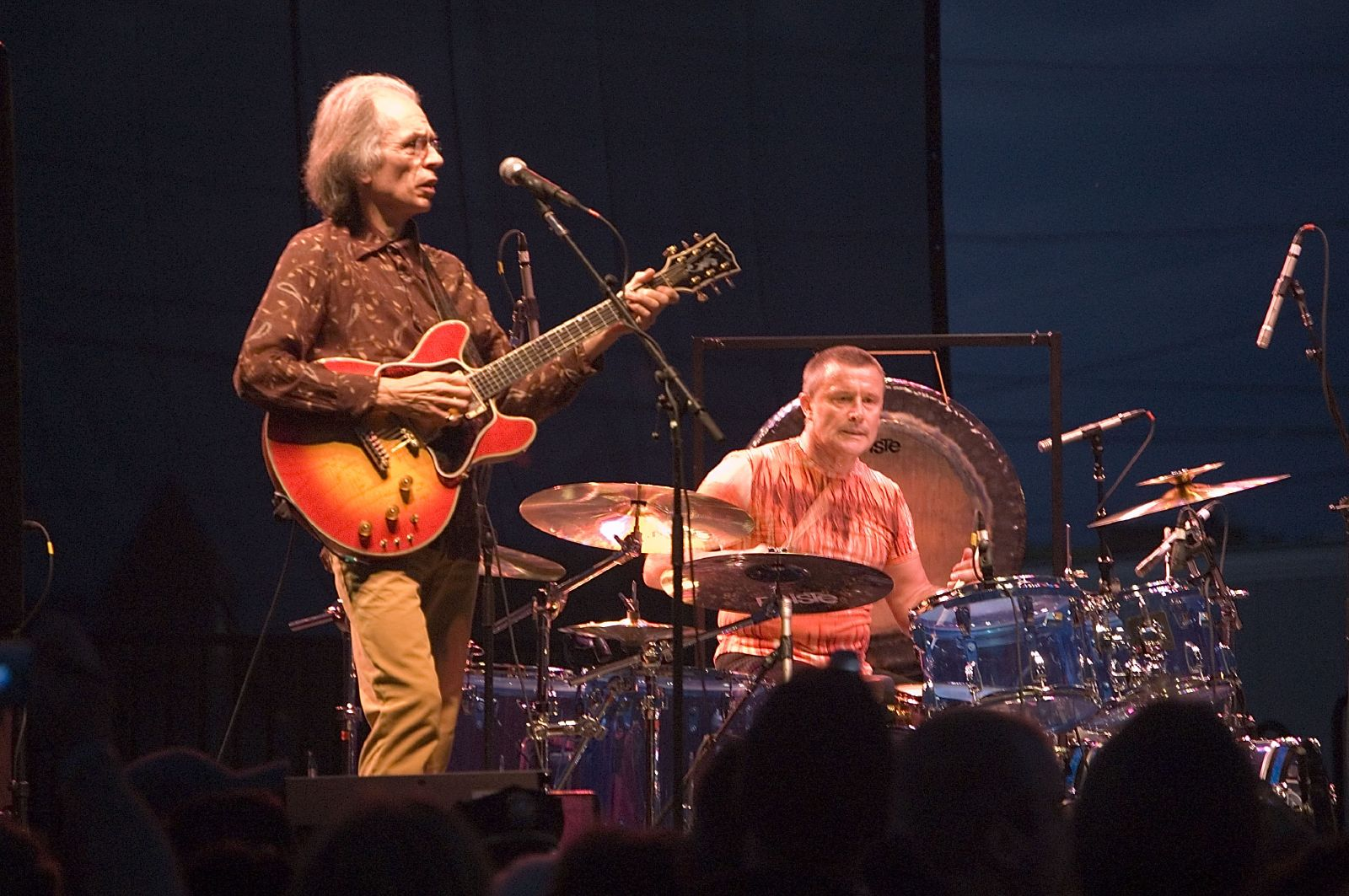 Steve Howe and Carl Palmer at Asia concert at Norwalk, CT Oyster Festival